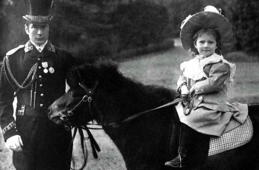 Footman Alexei Trupp and Grand Duchess Tatiana Nikolaevna of Russia on a pony